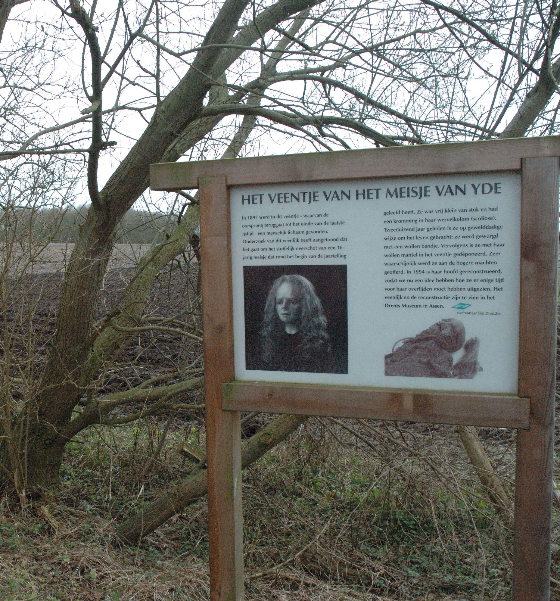 location where the bog girl of Yde was found